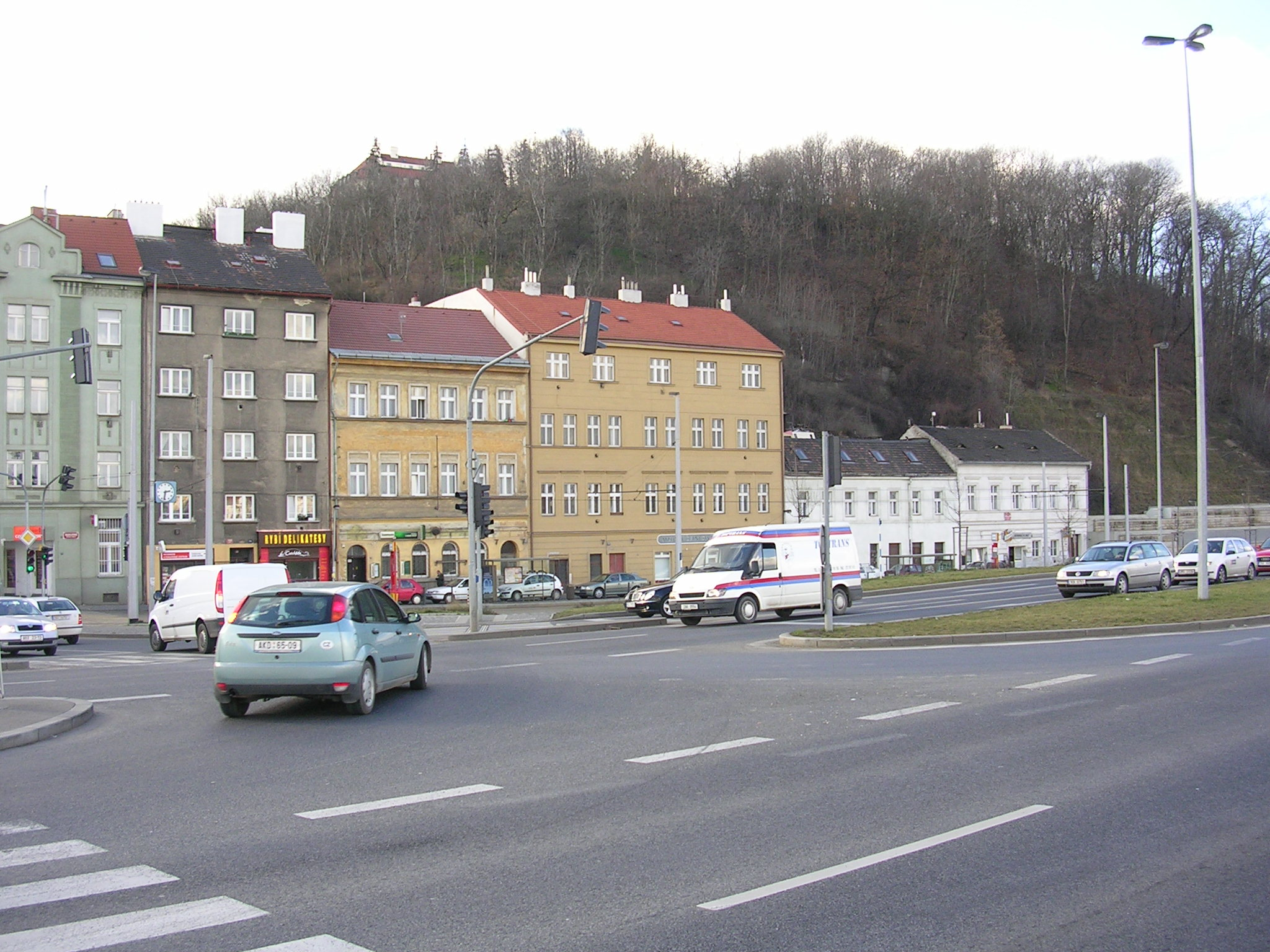 Smíchov, Prague, the Czech Republic. - OpenStreetMap(Info)